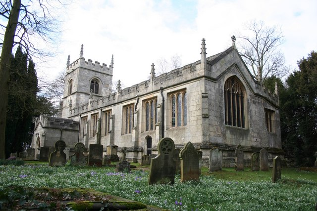 All Saints' church Crocus and snowdrops by All Saints' church at Babworth